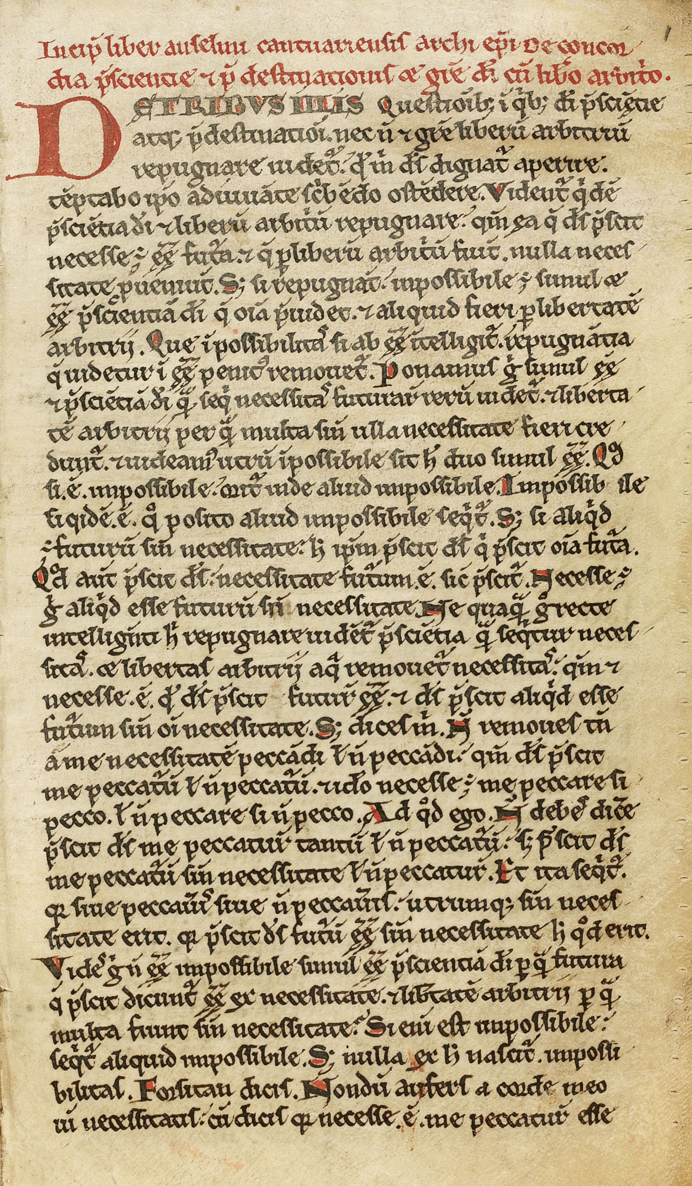 The first page of a 12th-century Latin manuscript of Anselm of Canterbury's De Concordia Praescientiae et Praedestinationis et Gratiae Dei cum Libero Arbitrio.